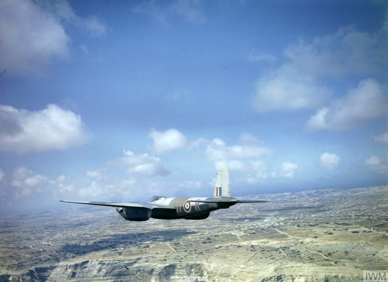 The Royal Air Force in Malta, June 1943 A De Havilland Mosquito II DZ231/`YP-R' of No 23 Squadron, Royal Air Force flying over Malta. Comment : No. 23 Squadron flew Mosquito NF II (Special)s on night intruder operations from Malta over Italy.